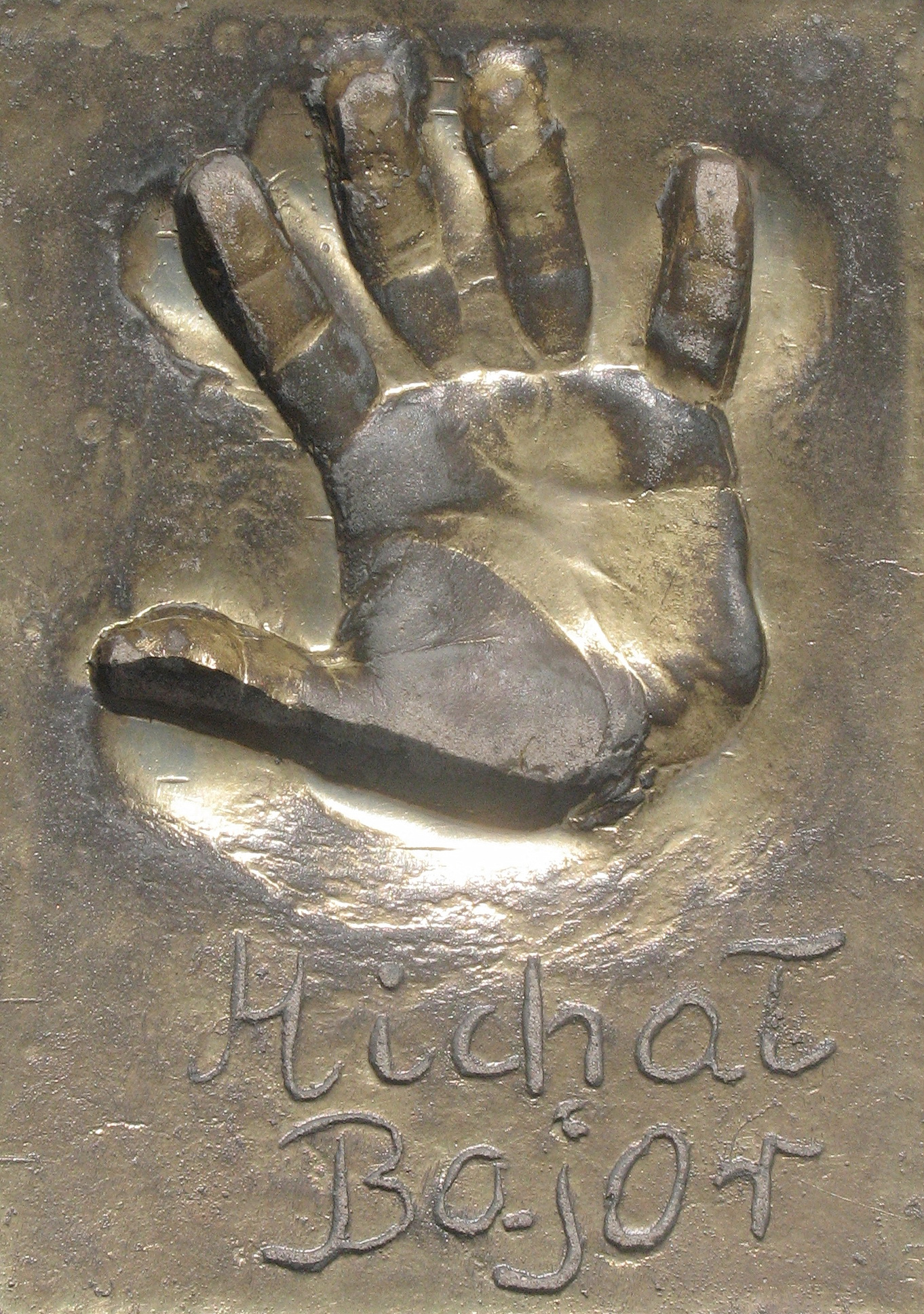 Michał Bajor - handprint and signature in Międzyzdroje.